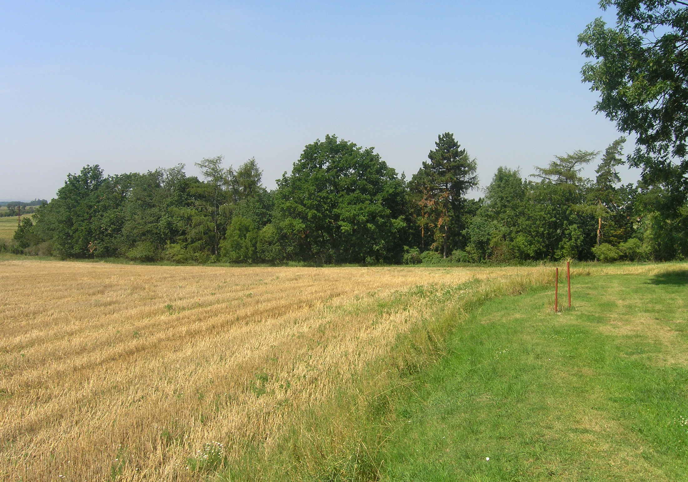 Natural park Rokytka by Svatá Markéta church in Královice, Prague